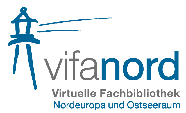 Logo of the Virtual Library of Northern European and Baltic Regional Studies (vifanord)